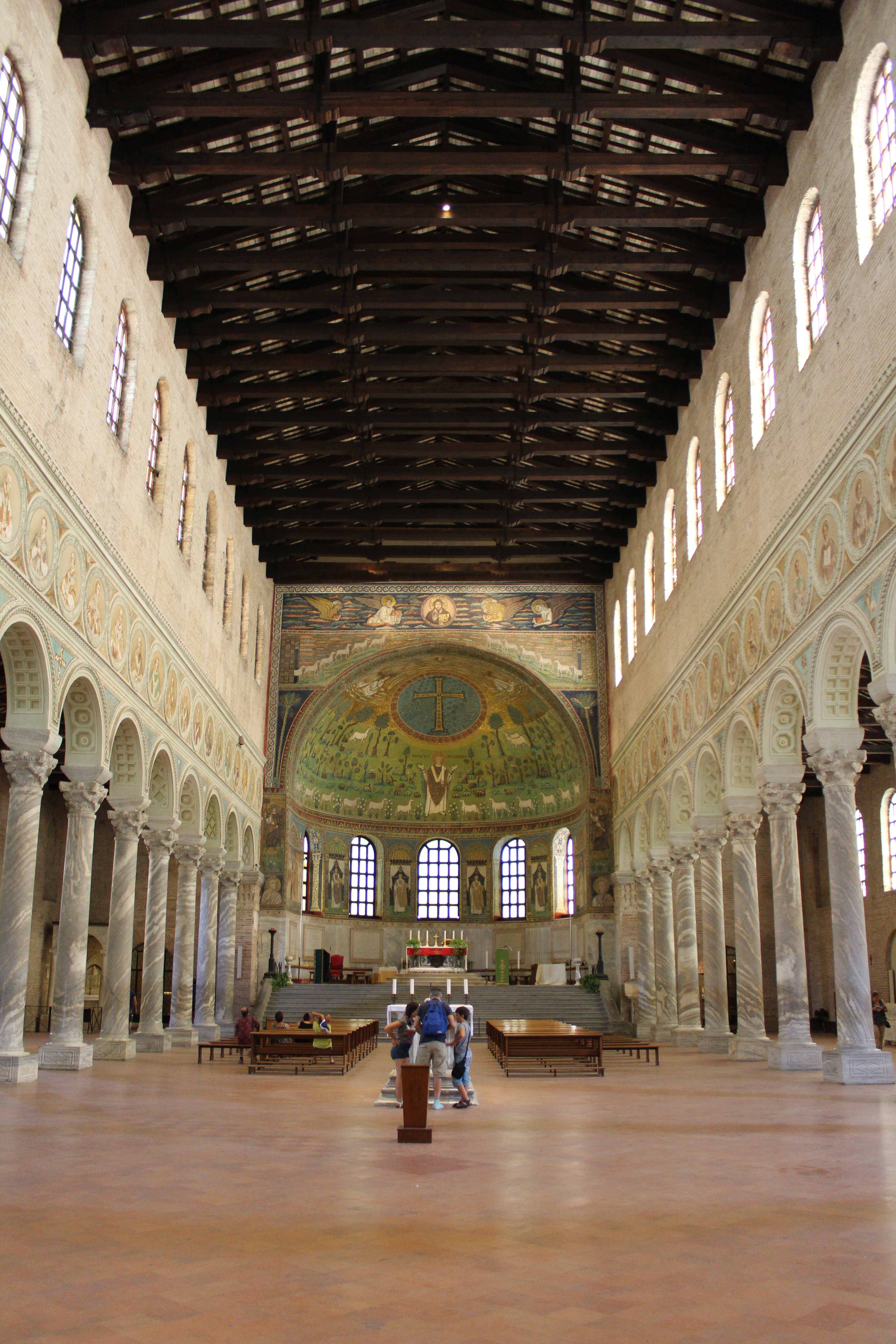 Nave of Basilica of Sant'Apollinare in Classe, Ravenna, Italy